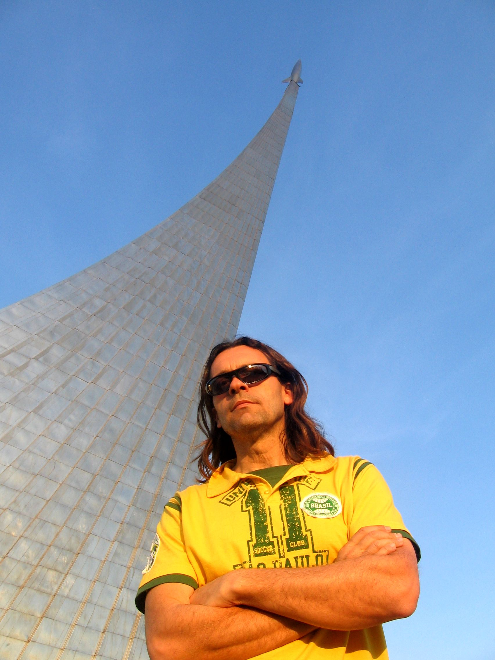 BOYKO NEDELCHEV,SINGER